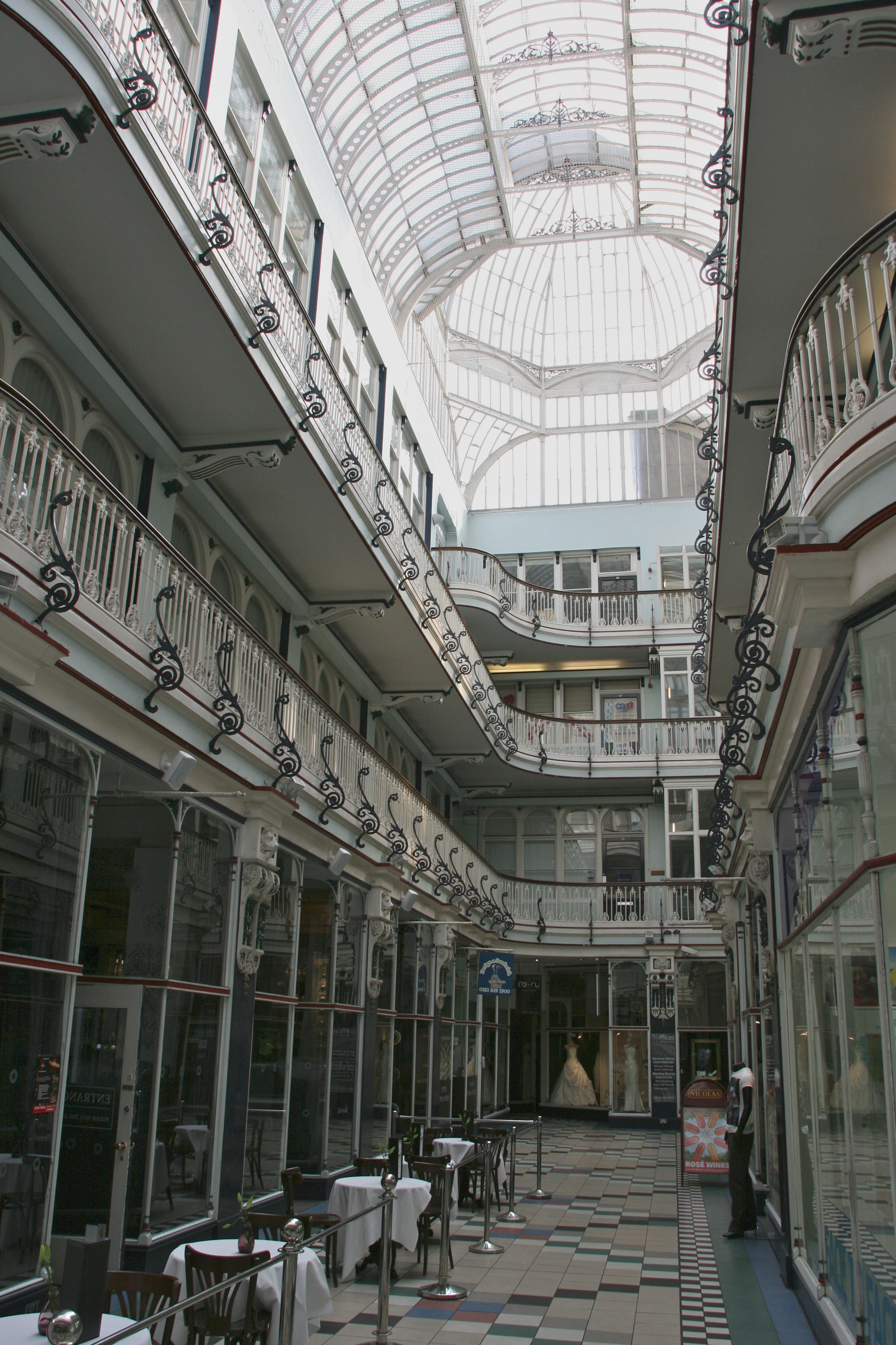 Barton Arcade, Manchester, England.